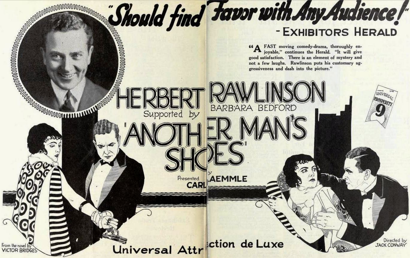 Advertisement for the American comedy film Another Man's Shoes (1922) with Herbert Rawlinson, on pages 24 and 25 of the November 11, 1922 Universal Weekly.